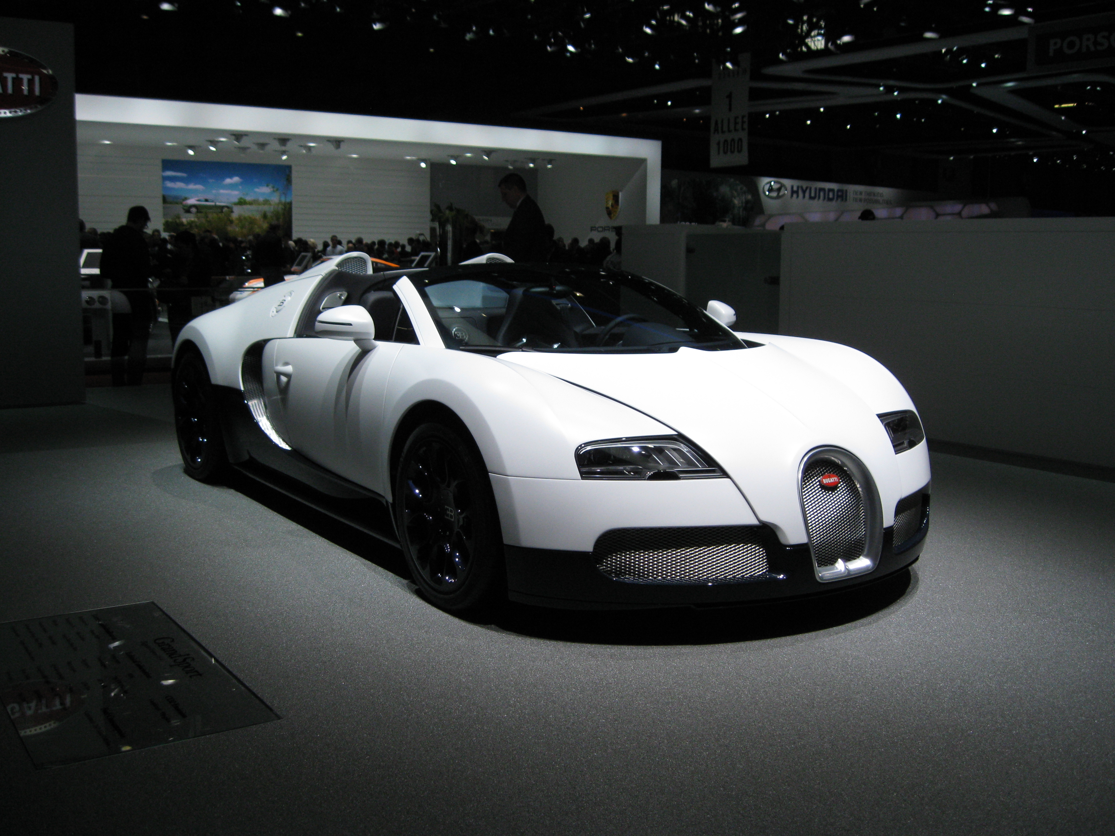 Geneva Motor Show 2011